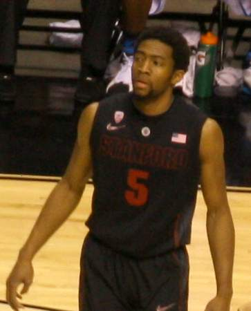 Chasson Randle of the Stanford Cardinal